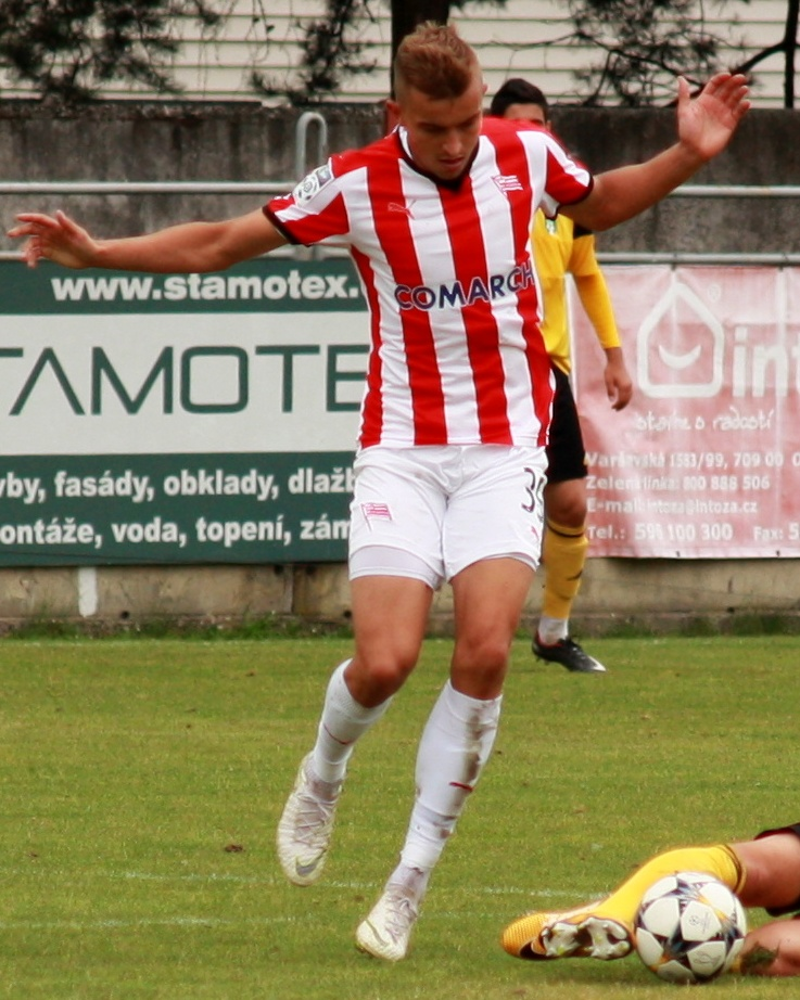 Michał Helik, Polish footballer in team Cracovia during friendly match against MFK Karviná in Dětmarovice, 23rd June 2018